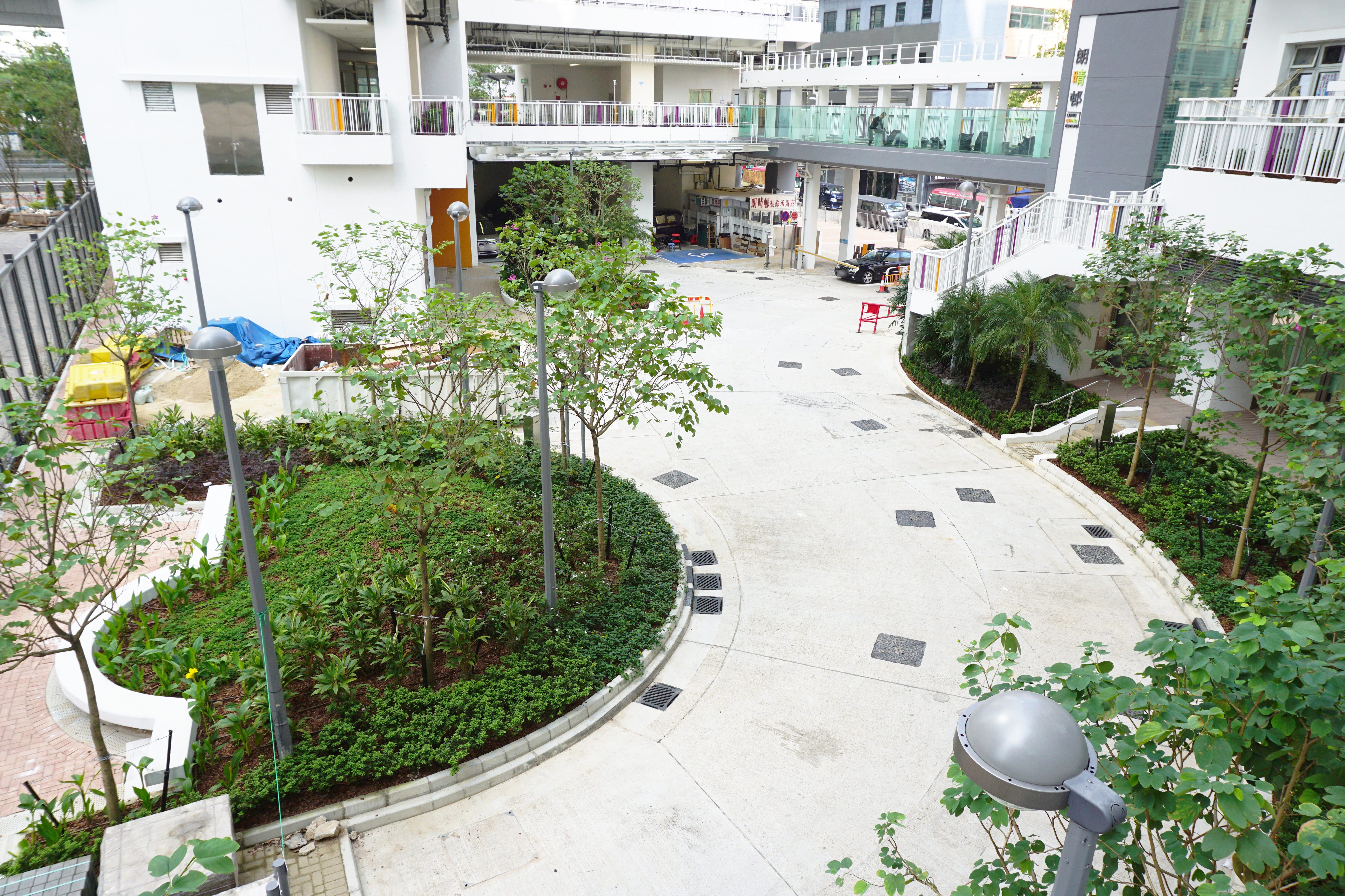 Long Ching Estate in Yuen Long, Hong Kong.